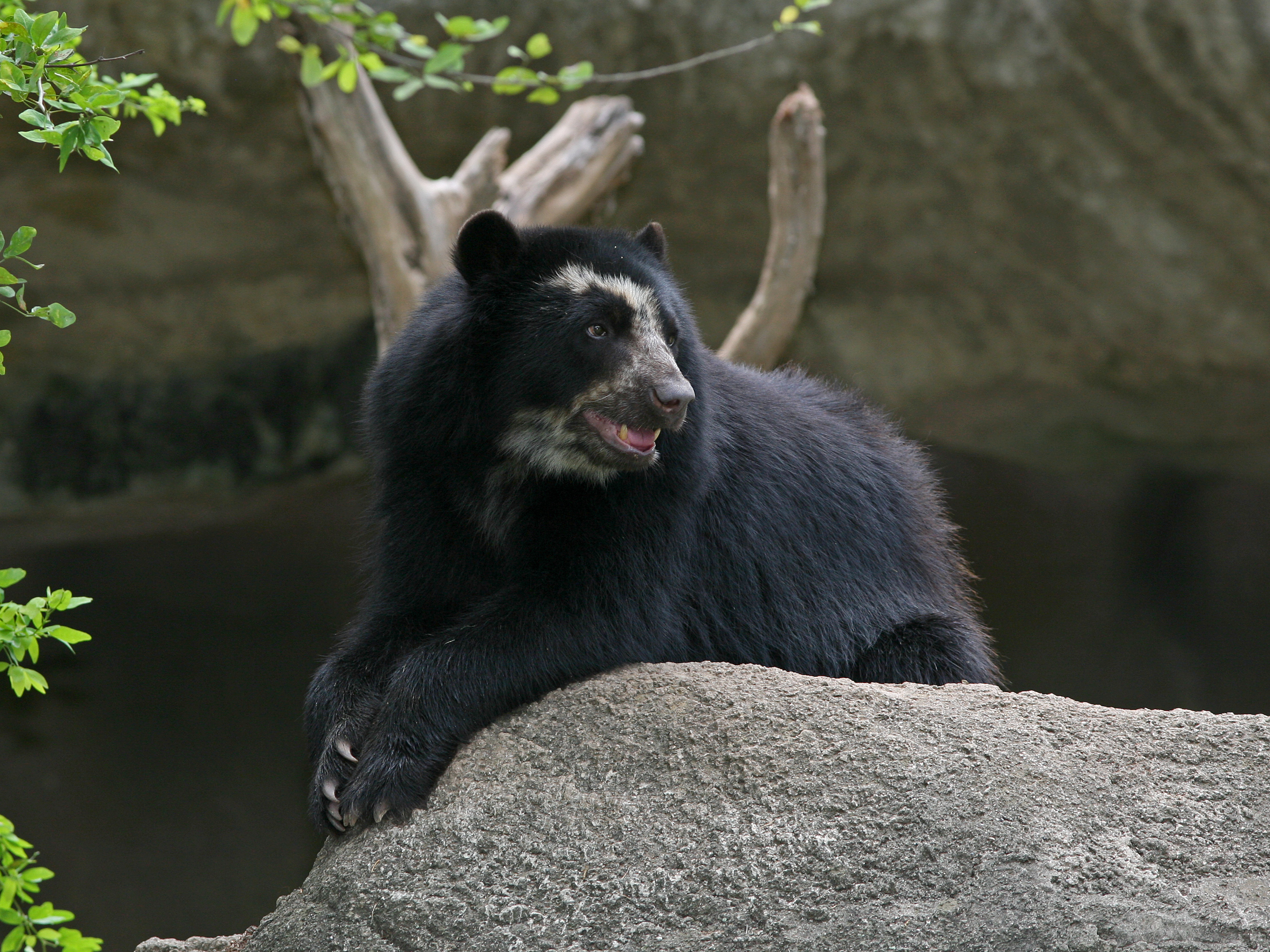 Spectacled Bear at zoo in Barquisimeto, Venezuela